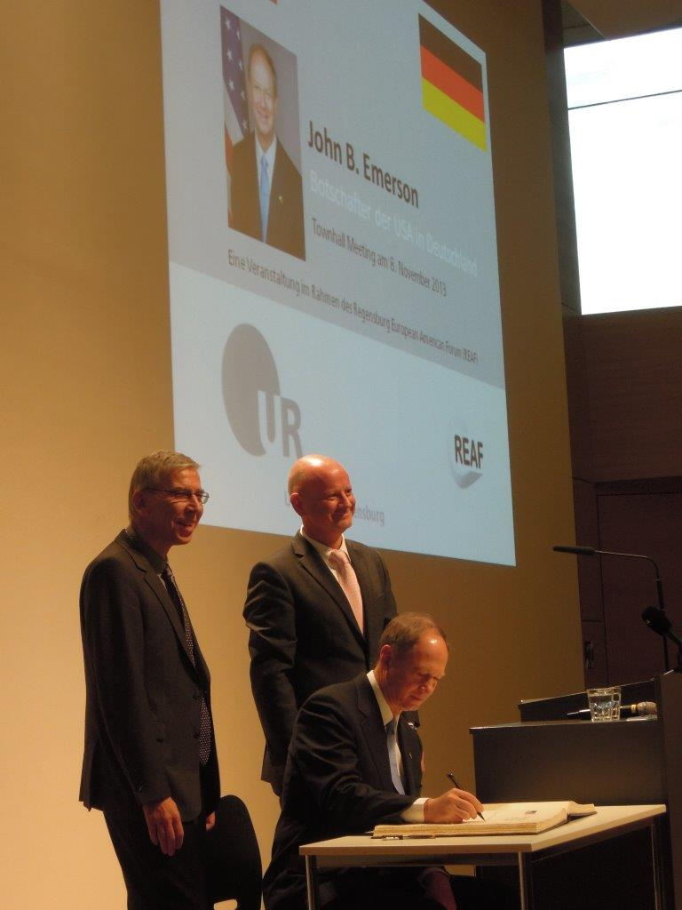 Ambassador John B. Emerson visited the city of Regensburg. He met Lord Mayor Schaidinger and signed the golden book and gave a talk at the University of Regensburg.